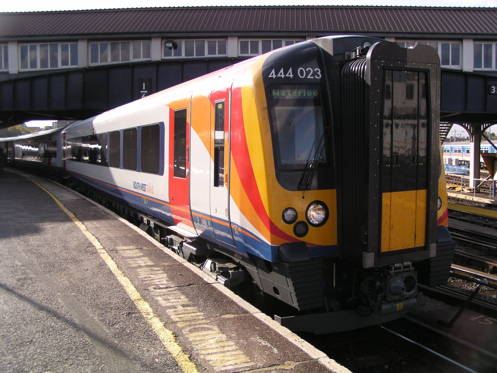 BR Class 444, no. 444023 at Clapham Junction on 30th October 2004. This unit is painted in South West Trains express livery.